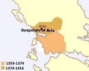 Despotate of Arta - map